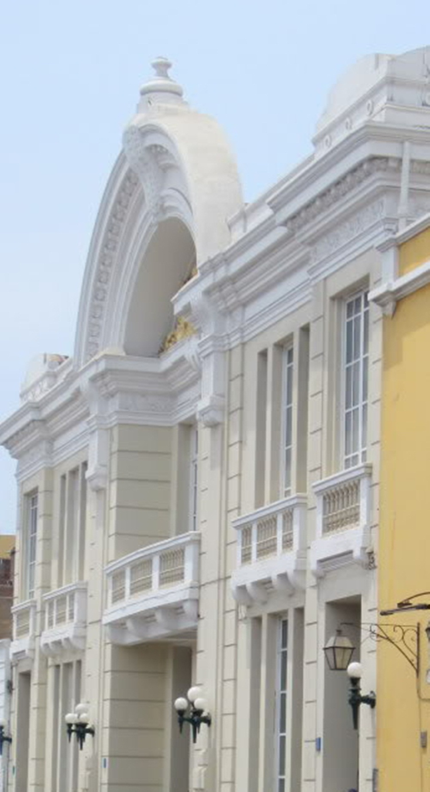 Teatro Municipal deTrujillo